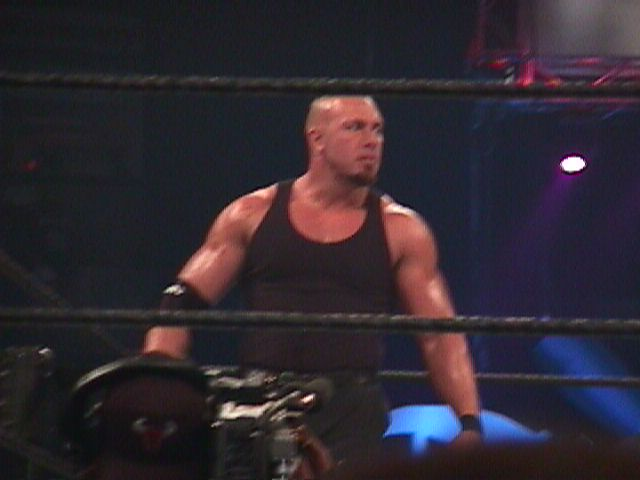 Bull Buchanan at the WWF King of the Ring at the Fleet Center in Boston, MA in 2000 - WWE